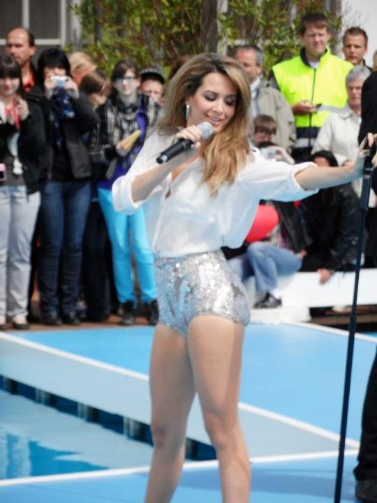 Mandy Capristo at ZDF-Fernsehgarten